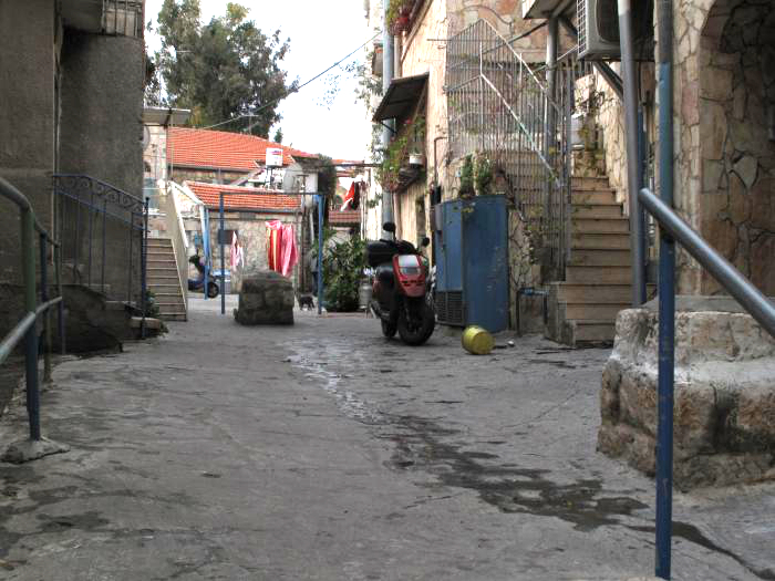 Jerusalem, Nahlaot, Rabbi Yaakov Bei Rav street